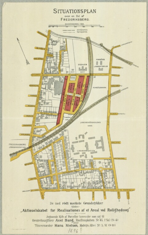 Situationsplan over en Del af Frederiksberg